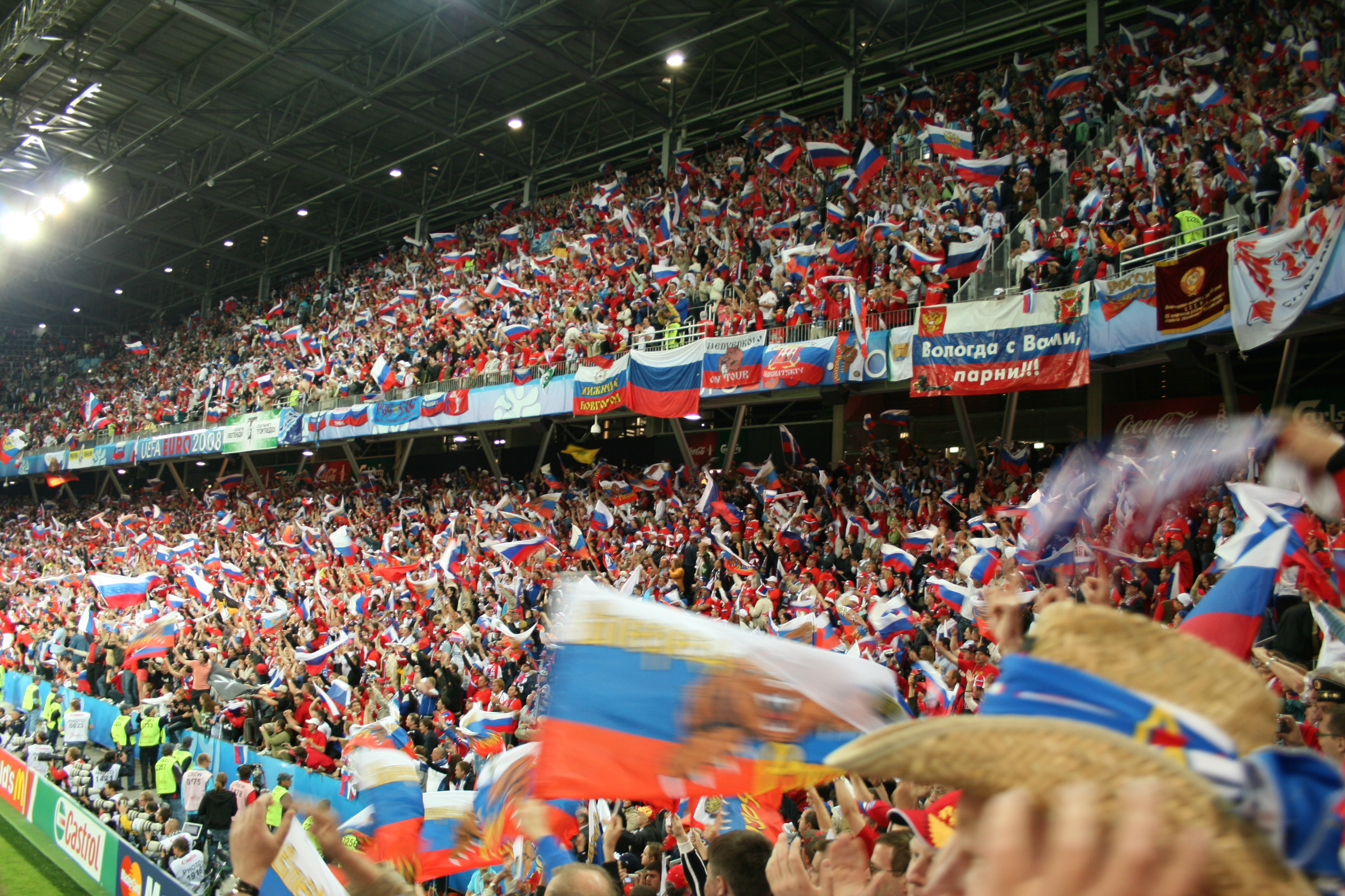 Greece - Russia Euro 2008